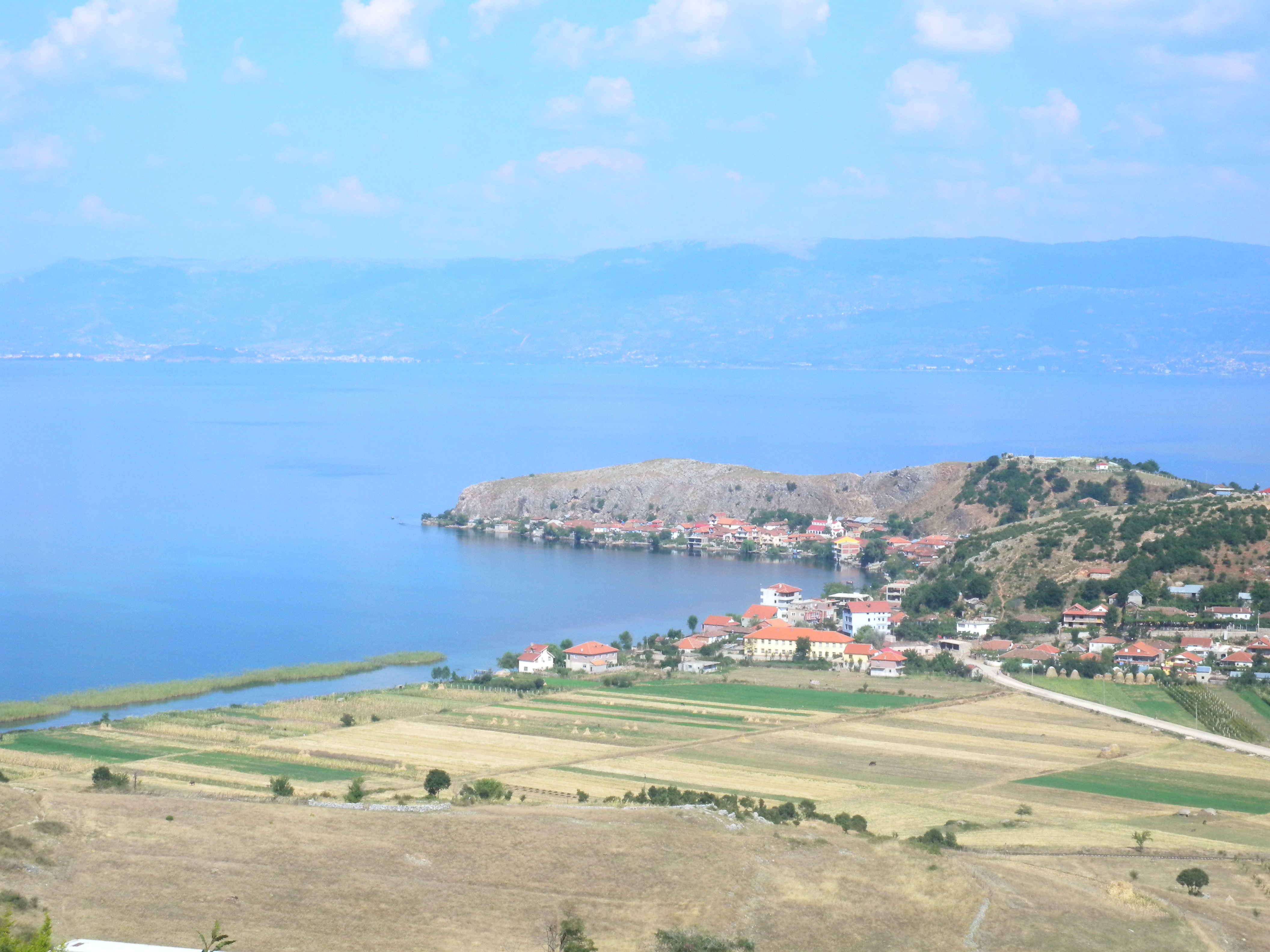 Lin Village near Pogradec.